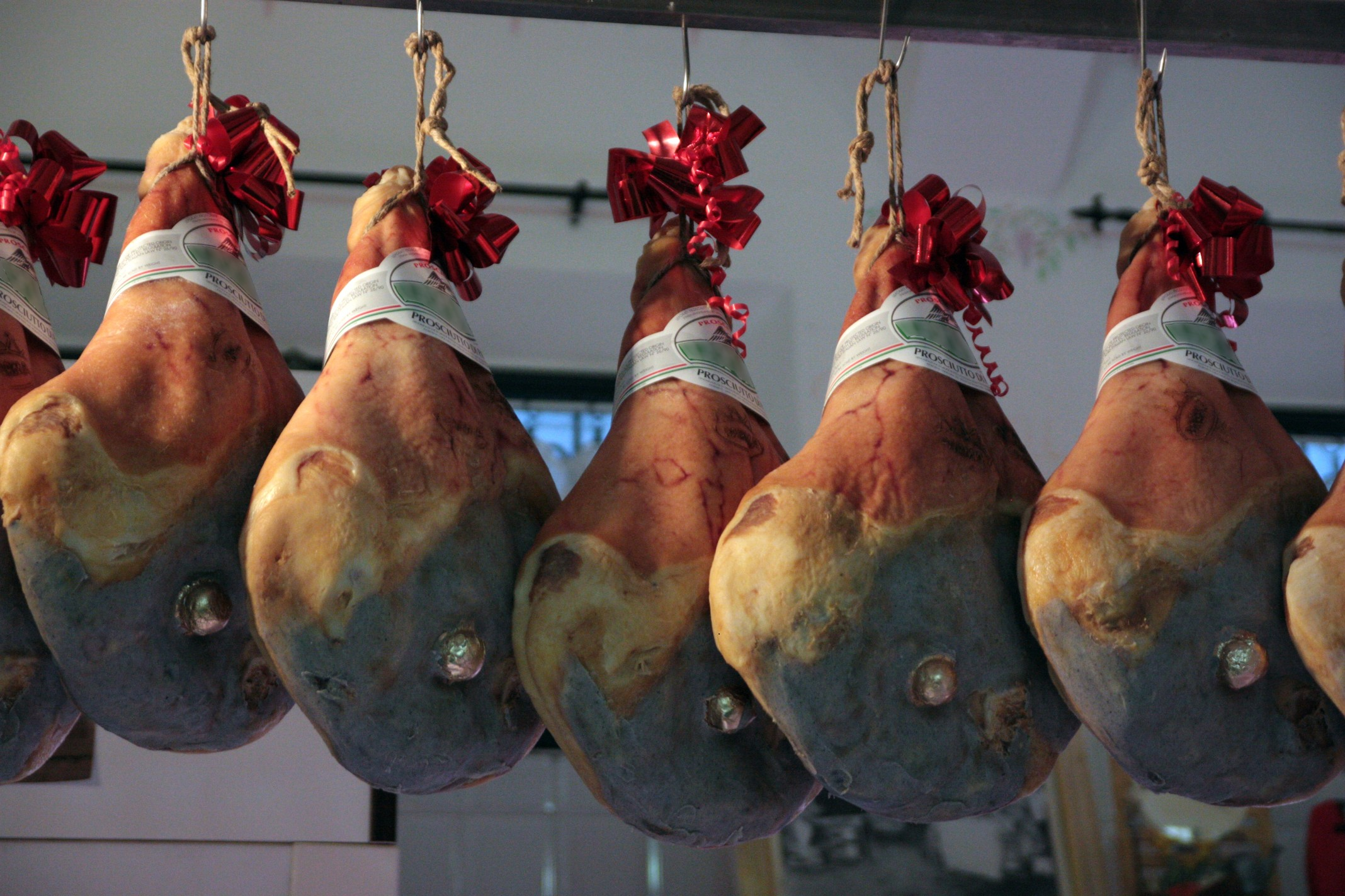 Modena is famous for the high quality of its ham and salami.